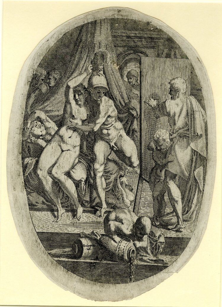 British Museum, Alexander the Great and Campaspe sitting on a couch and posing for Apelles standing in the foreground in front of his easel; at the back of the sheet, a sketch in pencil representing a chimney (?). c.1541/45 Etching by: Léon Davent After: Francesco Primaticcio Height: 375 millimetres Width: 260 millimetres Zerner 1969 LD.51 One of the three plates etched after the frescoes executed by Primaticcio for the room of the Duchesse d'Etampes, Fontainebleau (1541-44). The preparatory drawing to Primaticcio's work is kept at Chatsworth (Inv.186). Also see 'The French Renaissance in Prints', Los Angeles 1994, cat. No.49